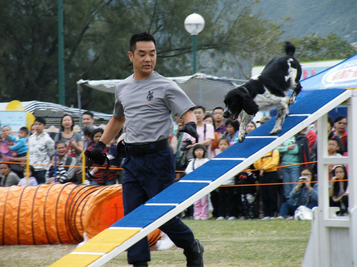 Correctional Services Dog Unit